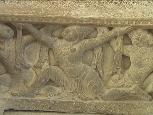 It is of a relief sculpture from the My Son E1 style of Cham art. The sculpture is located on the riser of a step leading up a pedestal upon which rested a lingam.